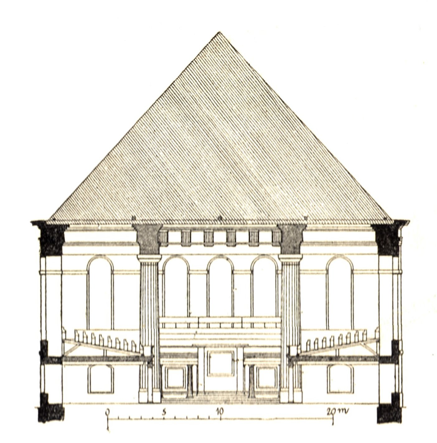 Berlin - Garnisonkirche, section